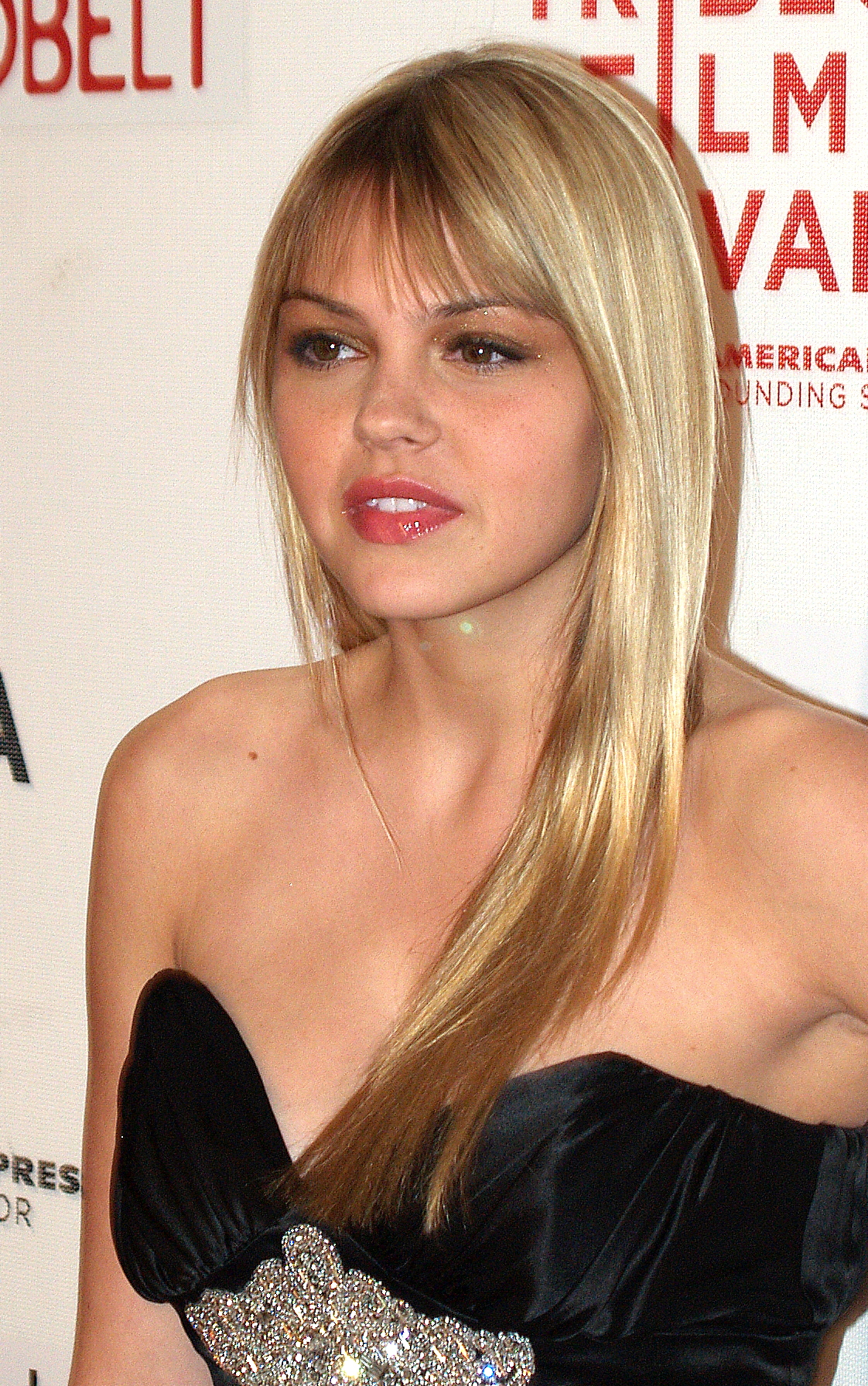 Aimee Teegarden at the premiere of Redbelt! at the 2008 Tribeca Film Festival.